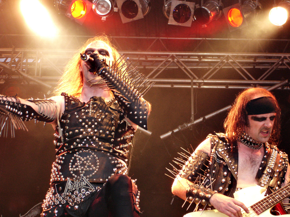 Nifelheim live Party.San 2006